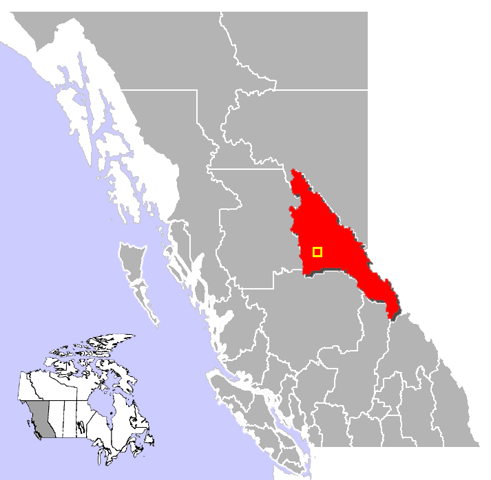 Location of Prince George, Fraser-Fort George District, BC